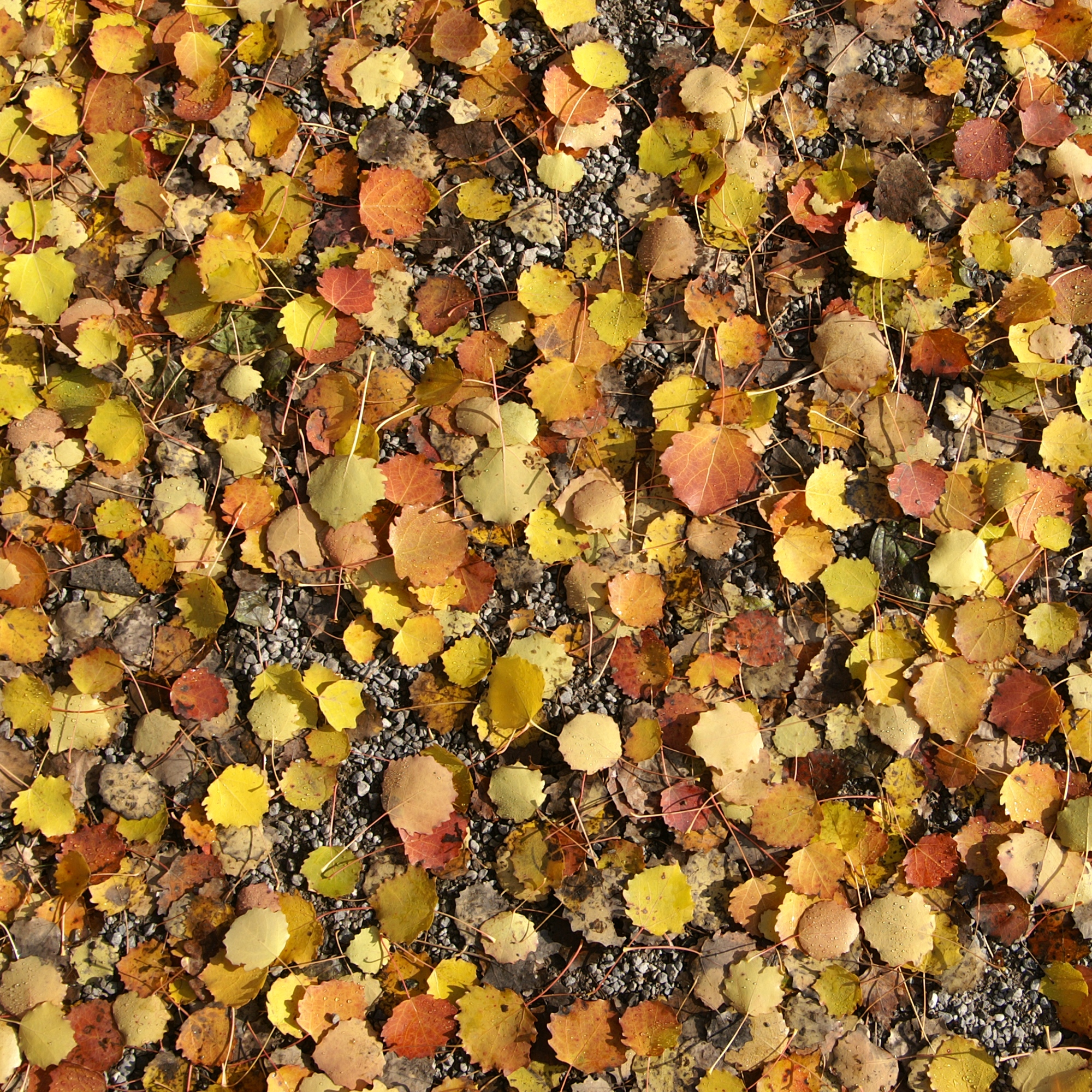 Autumn leaves of Populus tremula in Vorarlberg, Austria.